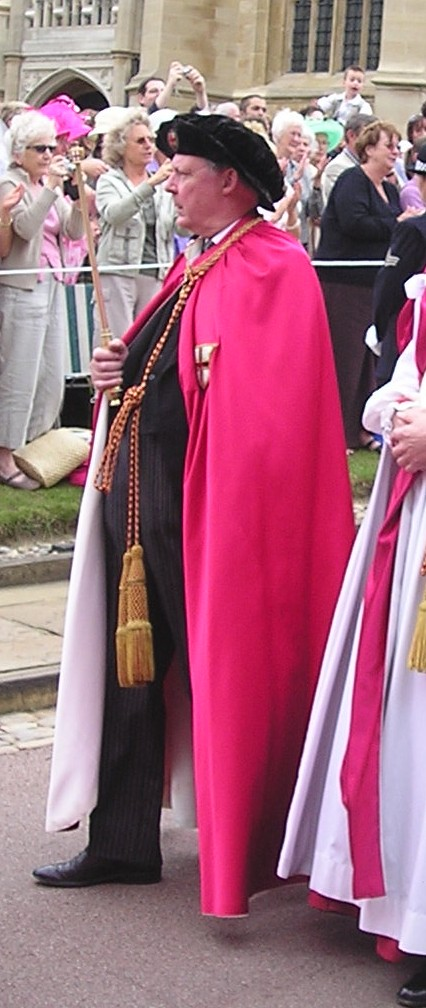 Peter Gwynn-Jones, Garter Principal King of Arms, wearing his robes as an officer of the Order of the Garter, in procession to St George's Chapel, Windsor Castle for the annual service of the Order of the Garter.